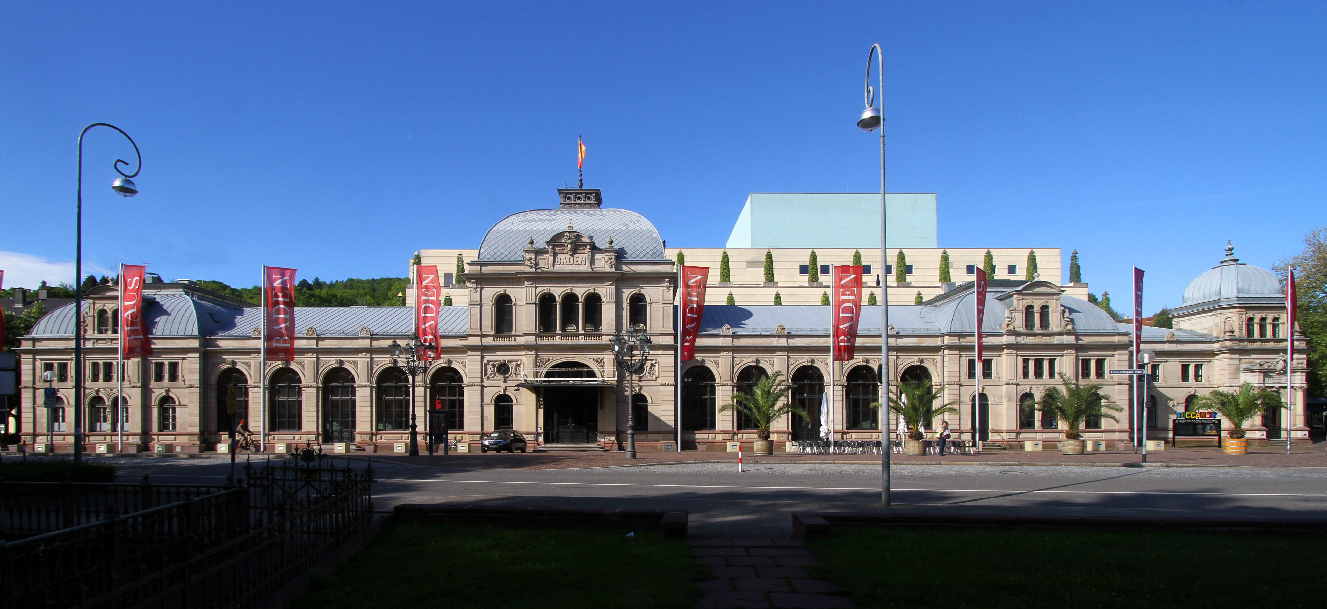 Old railway station of Baden-Baden, now part of the Festivalhall Baden-Baden.